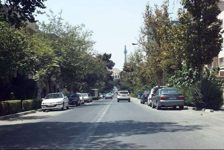 خیابان هویزه غربی - به سمت آپادانا